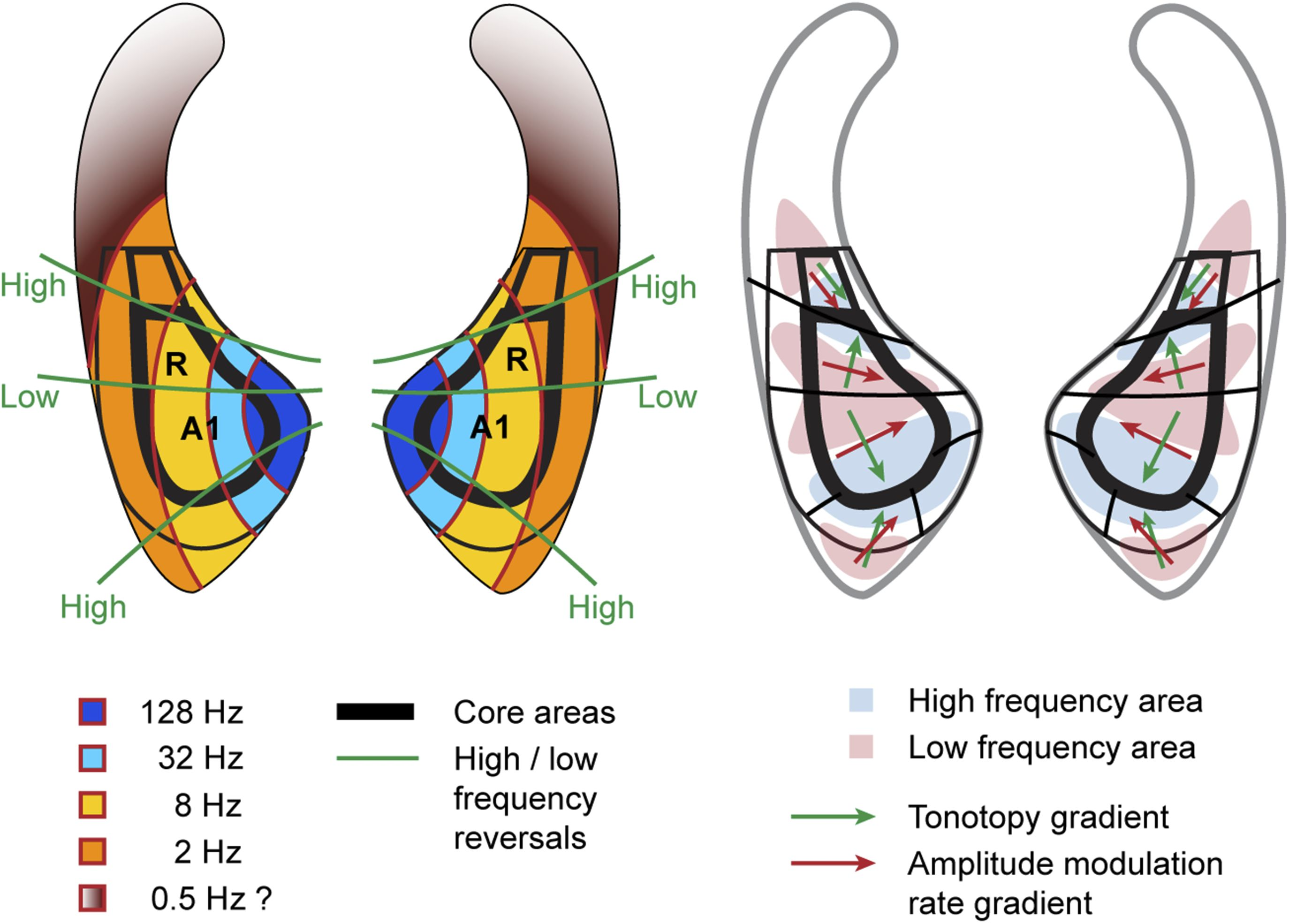 Schematic representation of amplitude-modulation-rate organisation in macaque auditory cortex. Model of modulation rate organisation in context of functional-field borders and frequency reversals (left side). Schematic organisation of tonotopy with indication of main gradients for tonotopy and modulation rate in selected functional fields (right side).